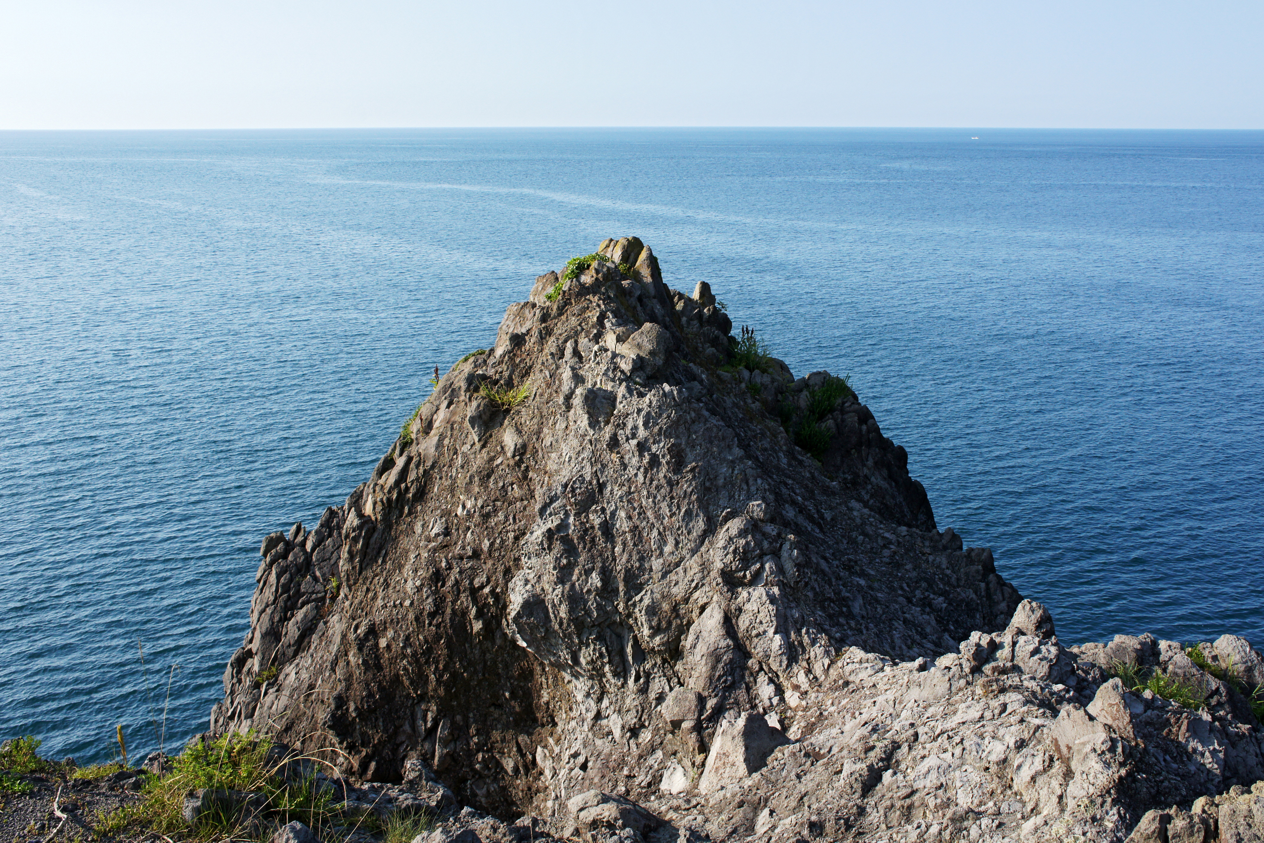 at Obiki-no-hana of Kasumi Coast in Kami, Hyogo prefecture, Japan. It belongs to a Sanin Kaigan National Park.